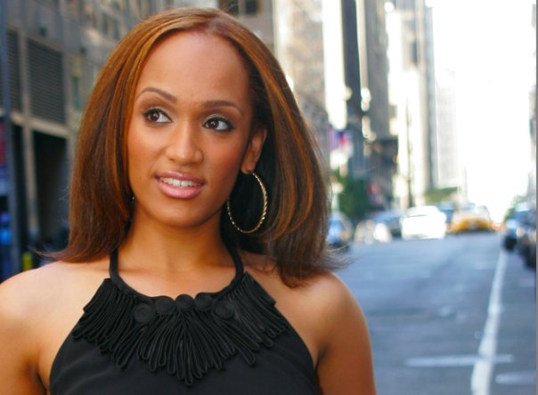 Safiya Songhai, American film director. Also Miss Black Massachusetts 2008